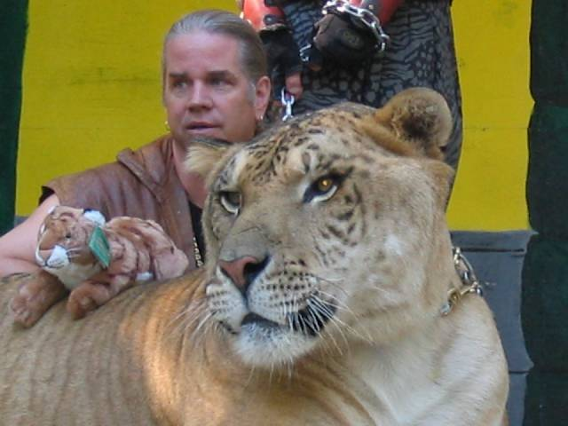 A liger and its trainer, Dr. Bhagavan Antle, at a Renaissance Festival in Massachusetts, USA, October 2005.